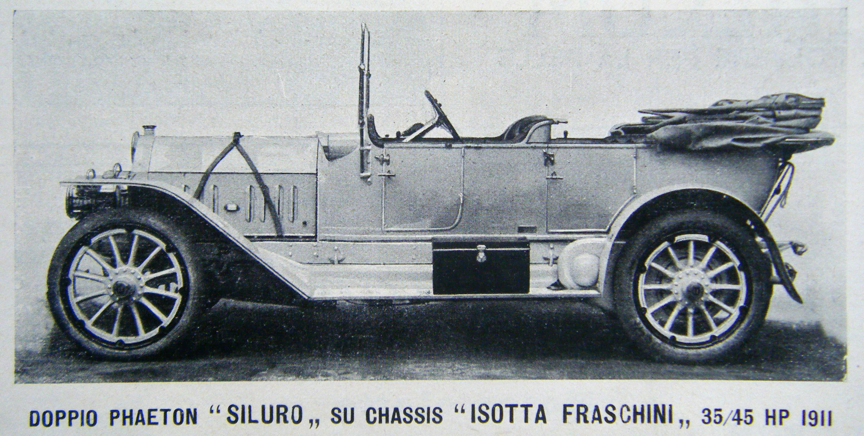 Isotta Fraschini Torpedo 35/45 HP 1911